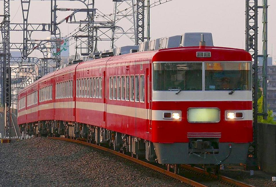 Tobu Railway 1800 series EMU set 1819 approaching Shin-Koshigaya Station on a seasonal Rapid working